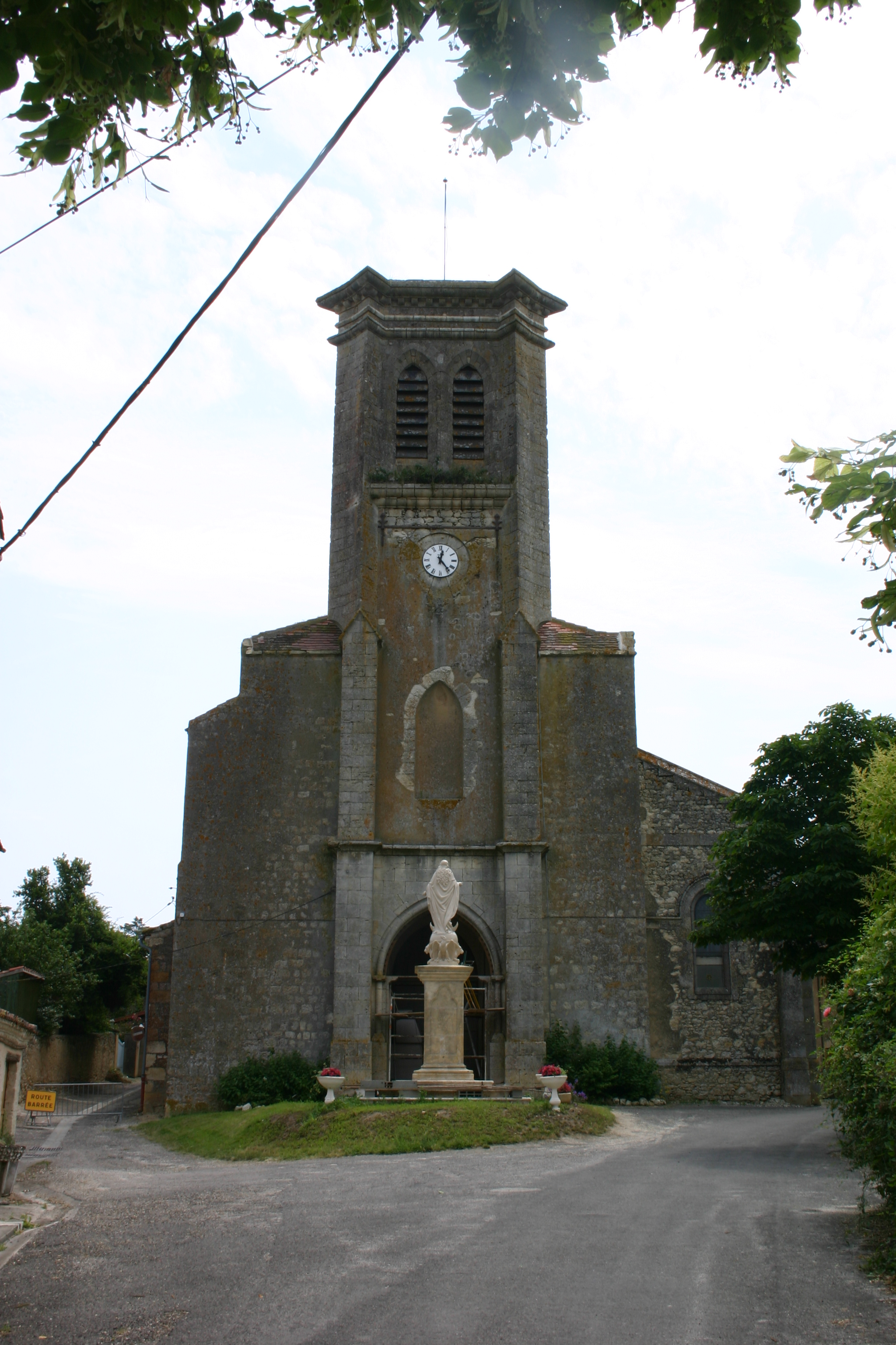 Église Saint-Puy - the church in Saint-Puy, France (Note: Picture has Geotag information stored in EXIF.)